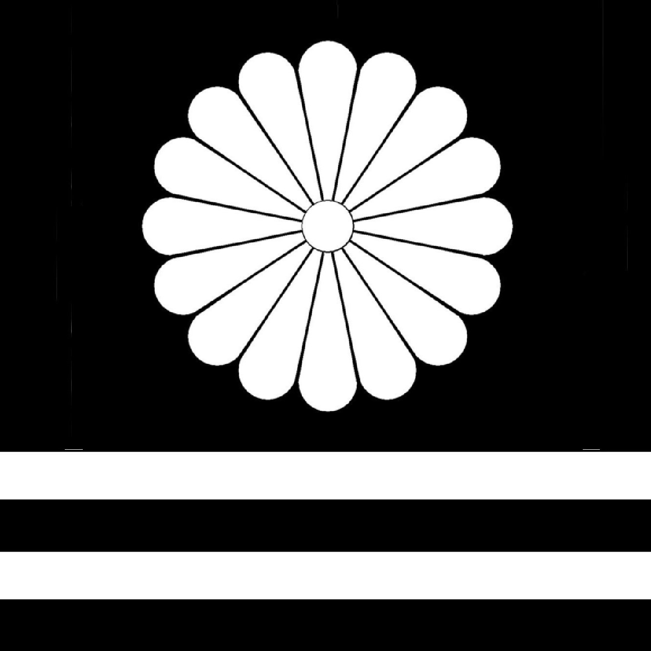 Japanese crest Chrsathenum with two bars